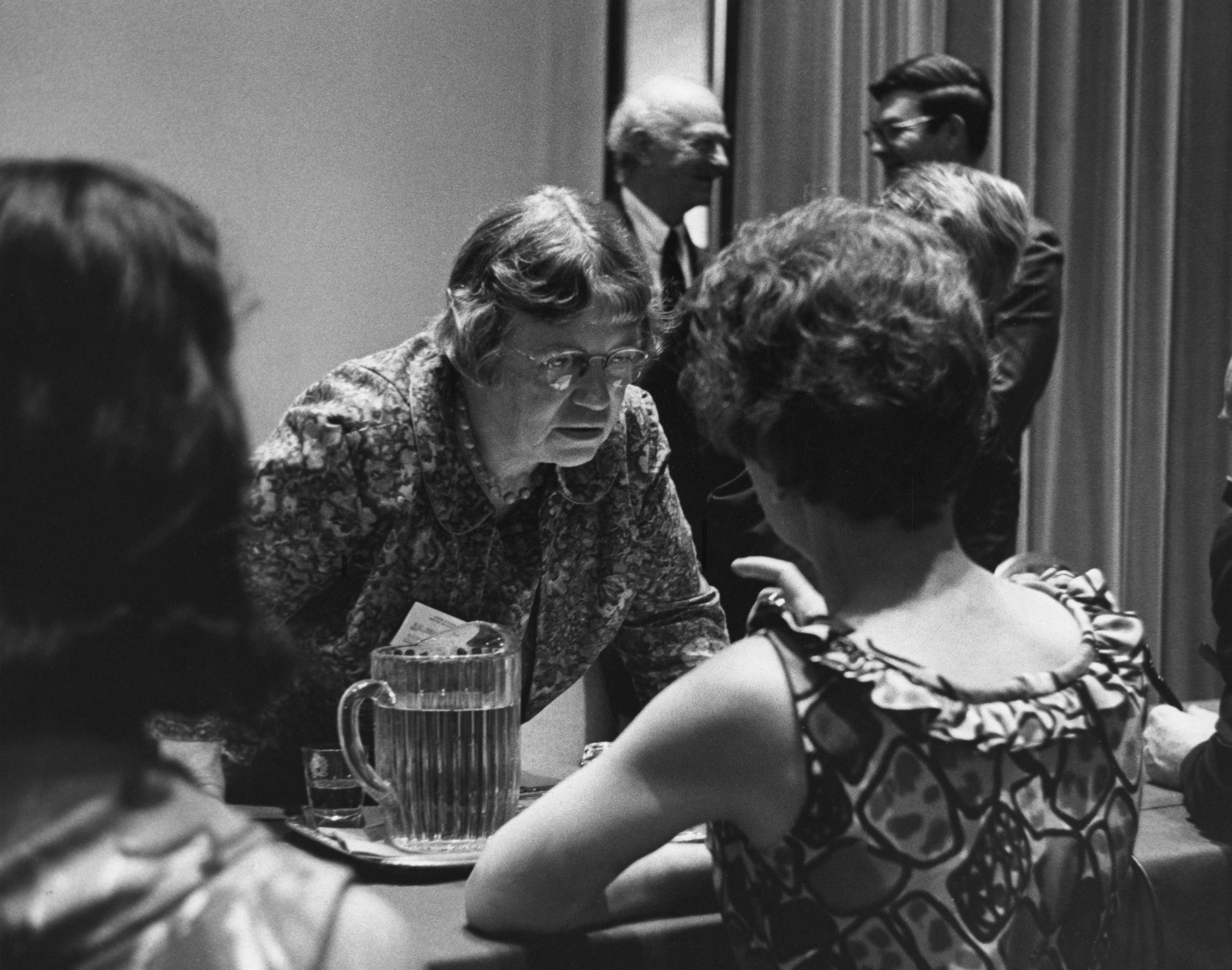 Creator: Siegel, Stephen Subject: Mead, Margaret Pauling, Linus 1901-1994 New York Academy of Sciences Type: Black-and-white photographs Date: 1968 6/21/1968 Topic: Anthropology Women scientists Local number: SIA Acc. 90-105 [SIA2008-5980] Summary: In this photography taken at the New York Academy of Sciences in June 1968, anthropologist Margaret Mead (1901-1978) is talking to journalists. The person in background appears to be chemist Linus Pauling (1901-1994). Mead was then Vice-President of the New York Academy of Sciences and she and Pauling were appearing at a "Town Meeting of Science" conference, held at the Academy to discuss a perceived budget crisis within the sciences Cite as: Acc. 90-105 - Science Service, Records, 1920s-1970s, Smithsonian Institution Archivess Persistent URL:Link to data base record Repository:Smithsonian Institution Archives View more collections from the Smithsonian Institution.